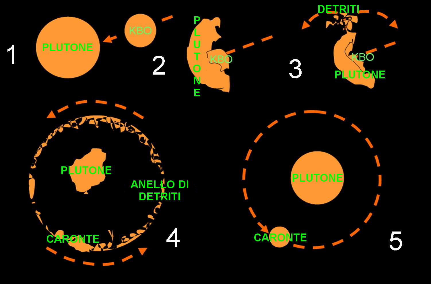 Original caption: This is the process of the Creation of Pluto's Moons (4th Edition). Number 1 shows a KBO nearing Pluto. Number 2 shows a KBO impacting Pluto. Number 3 shows a dust ring forming around Pluto. Number 4 shows the debris clumping together to form Charon. Number 5 shows Pluto and Charon becoming a spherical body and Charon orbiting Pluto. ---- The sequence of images obviously contradicts to w: conservation of angular momentum, assuming that all phases were shot from the same direction: phase 1 shows a system with clockwise angular momentum (relatively to the centre of mass) while phases starting from 3 show a counter-clockwise rotation.